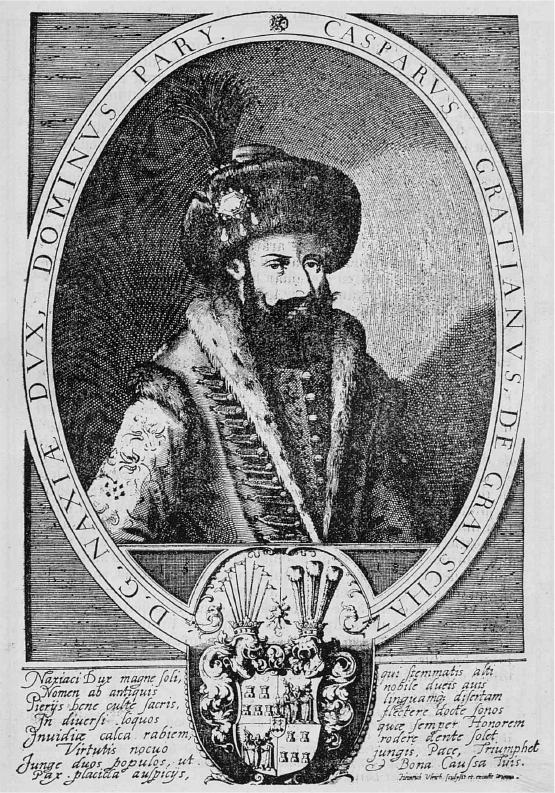 Gaspar Gratiani, contemporary engraving